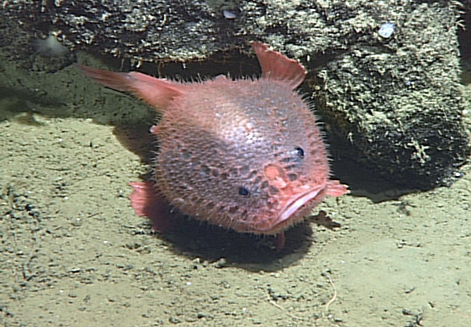 A rare anglerfish or sea toad (Bathychaunax coloratus syn. Chaunacops coloratus; Family Chaunacidae); measuring 20.5 cm in total length; on the Davidson Seamount at 2461 m depth. Small globular; reddish cirri; or hairy protrusions cover the body. The lure on the forehead is used to attract prey.